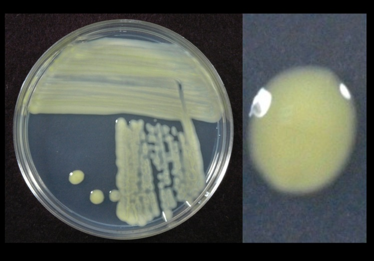 Xanthomonas translucens on SPA media. Notice the yellow pigment